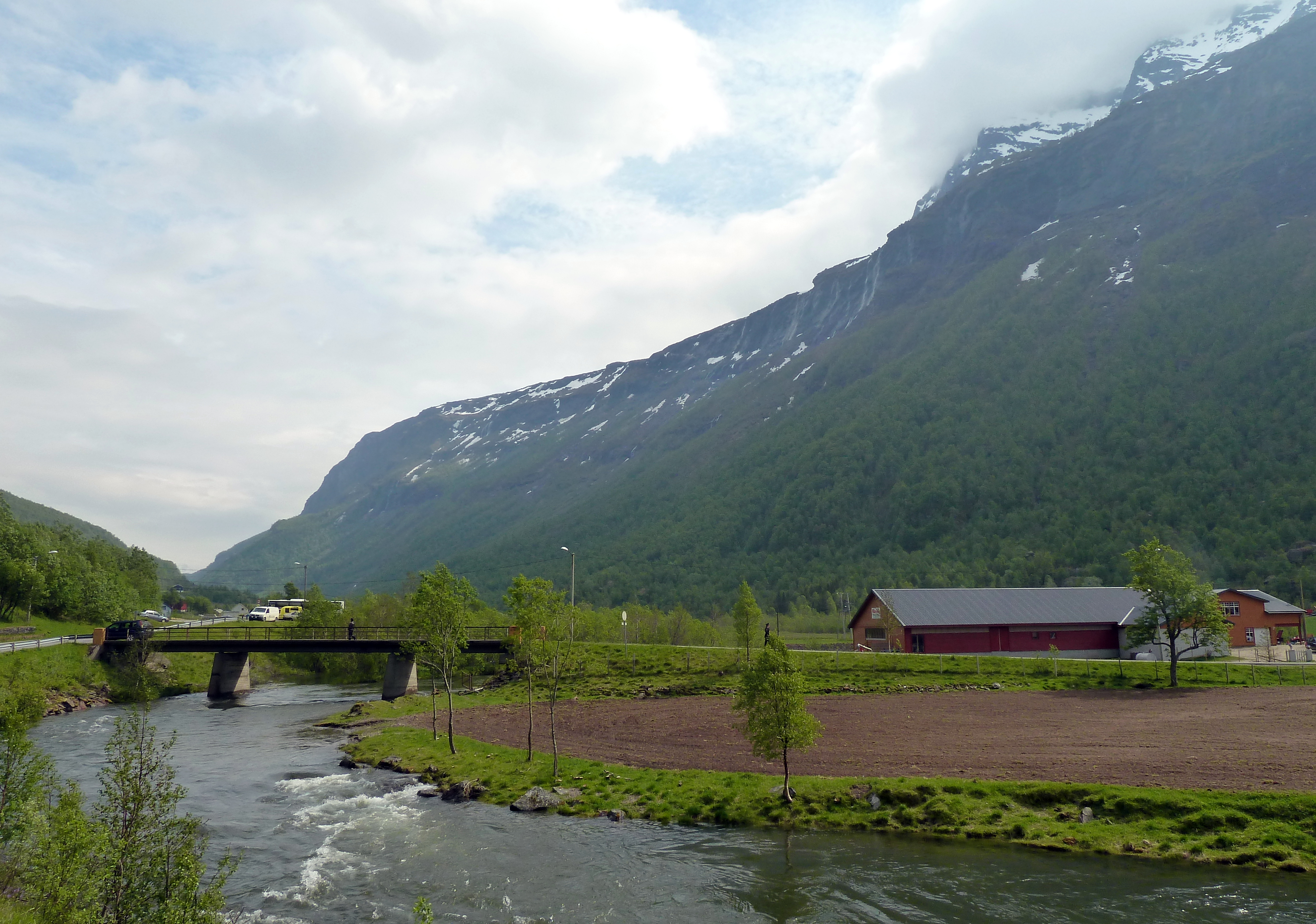 Spansdalen in Lavangen, Norway. View in direction towards Fossbakken.